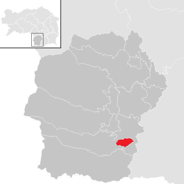 District Deutschlandsberg, Styria, Austria